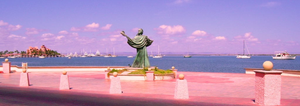 Jesús del Caracol in La Paz seafront